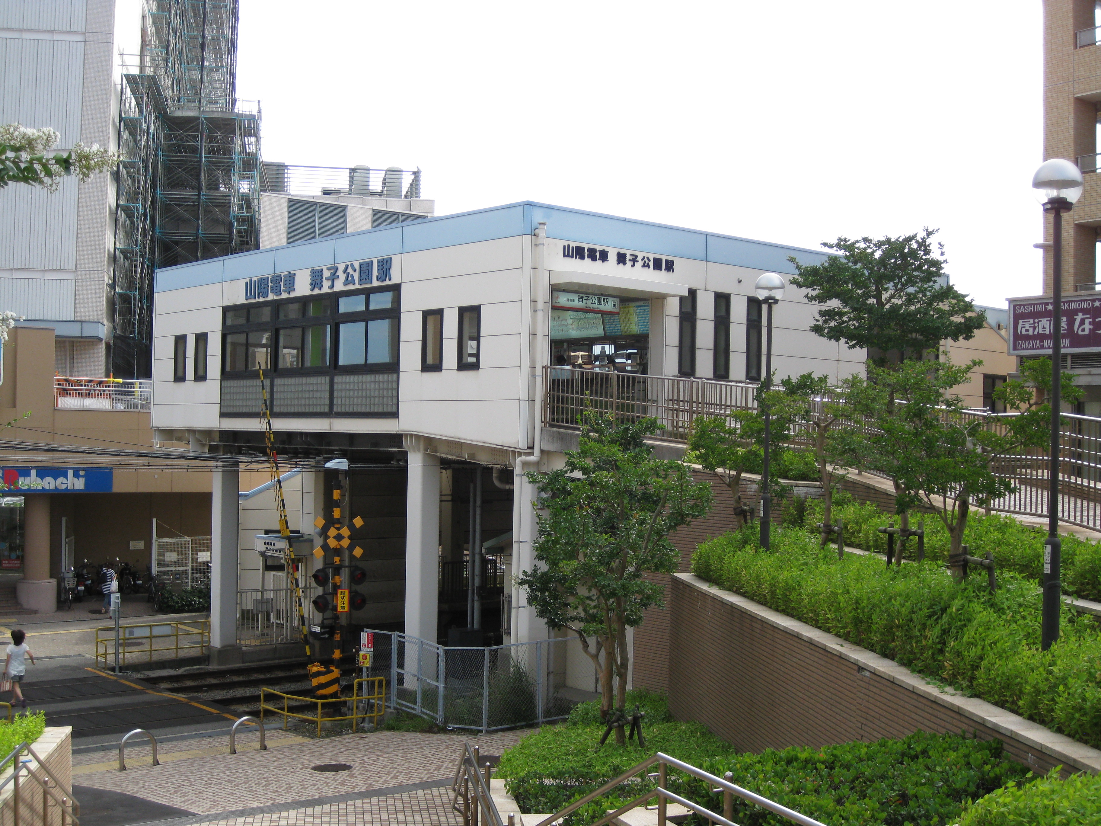 Maiko-koen Station